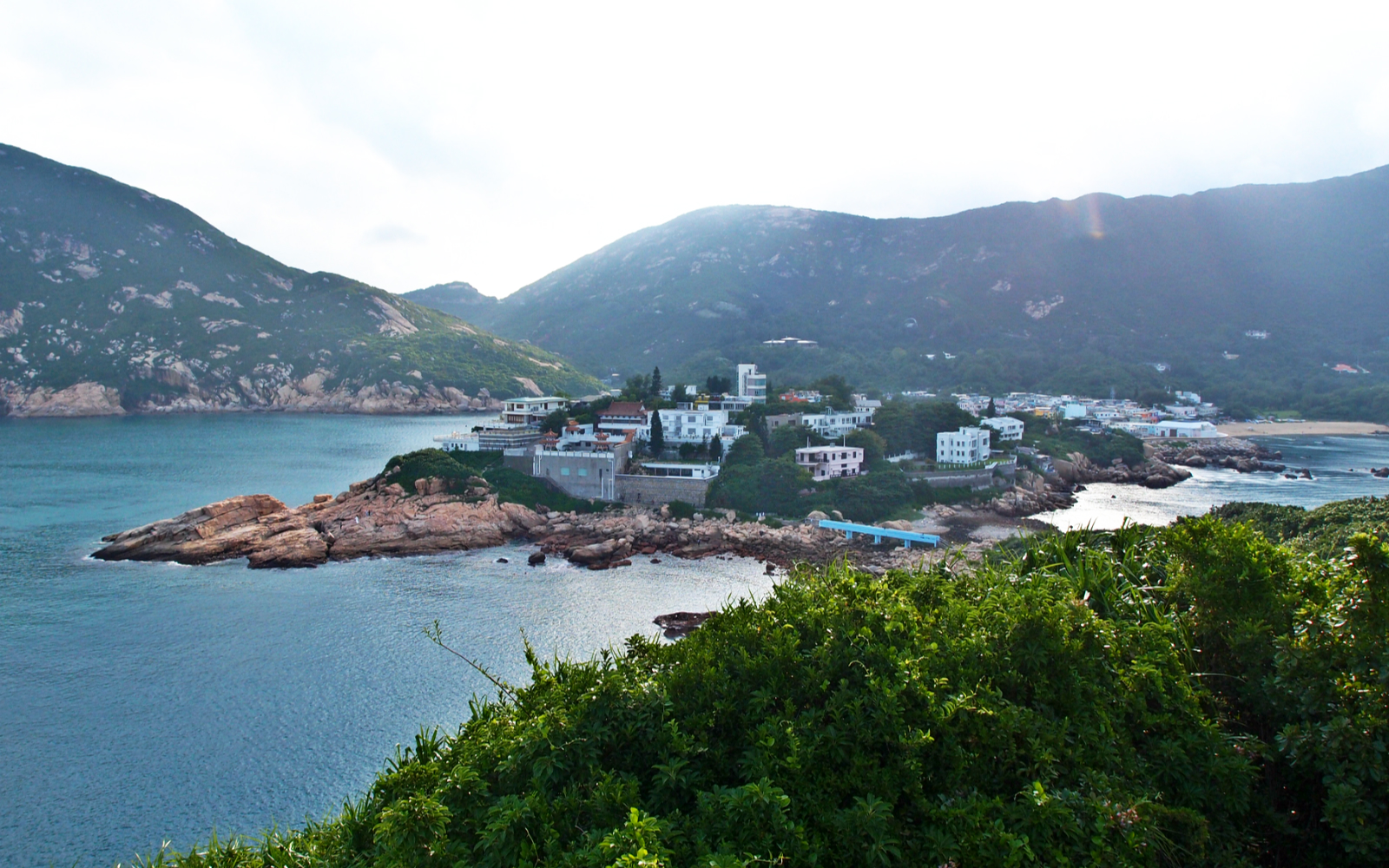 Shek O viewed from Tai Tau Chau, Southern District